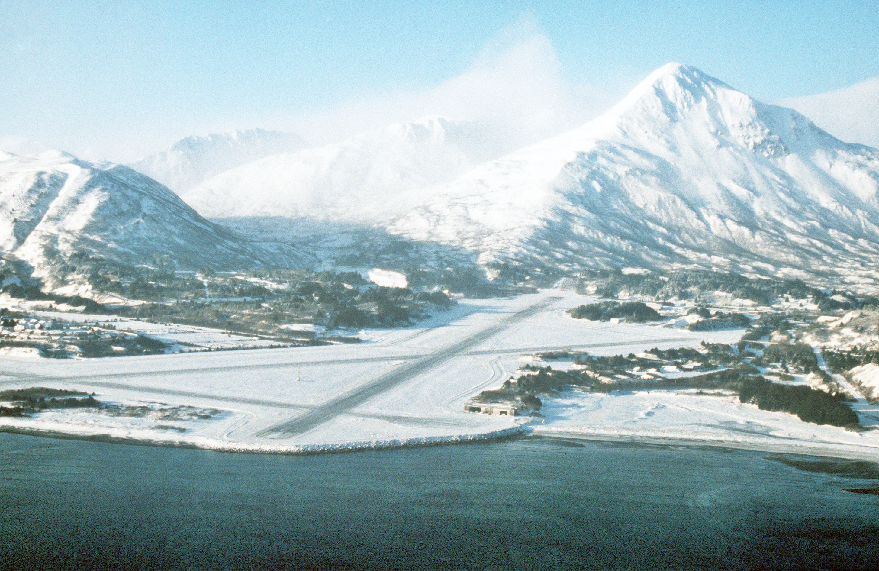 An aerial view of the runway system at the Coast Guard air station.Location: Kodiak Island Air Station, Alaska